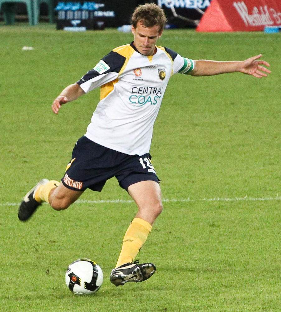 Alex Wilkinson playing for the Central Coast Mariners against Sydney FC in round 10 of the 08/09 A-League